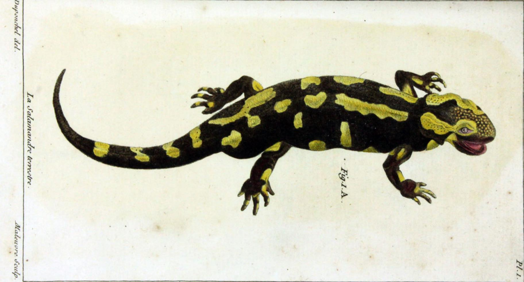 Salamandra